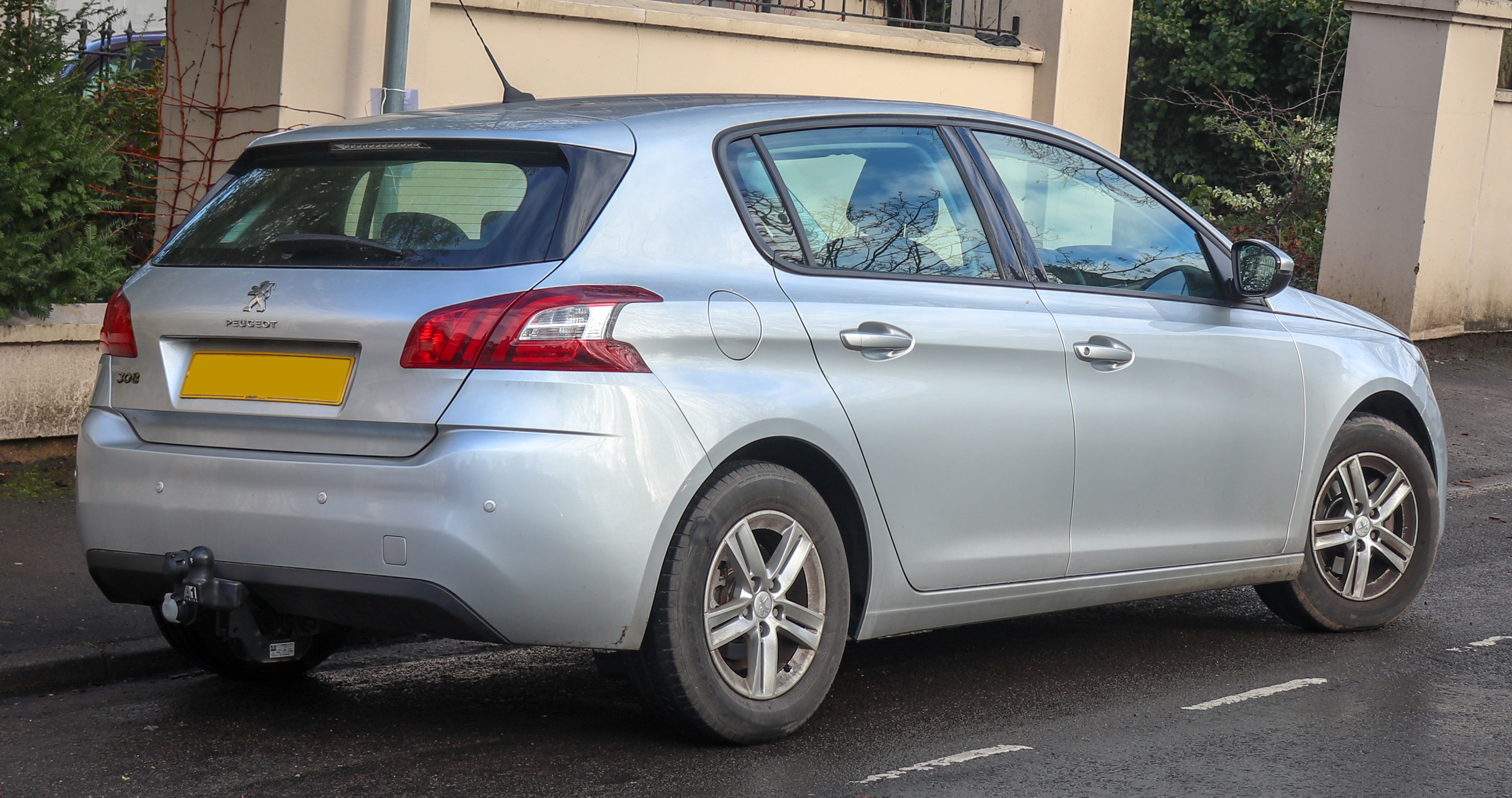 2014 Peugeot 308 Access THP 1.6 Rear (Nice base spec as well) Taken in Leamington Spa